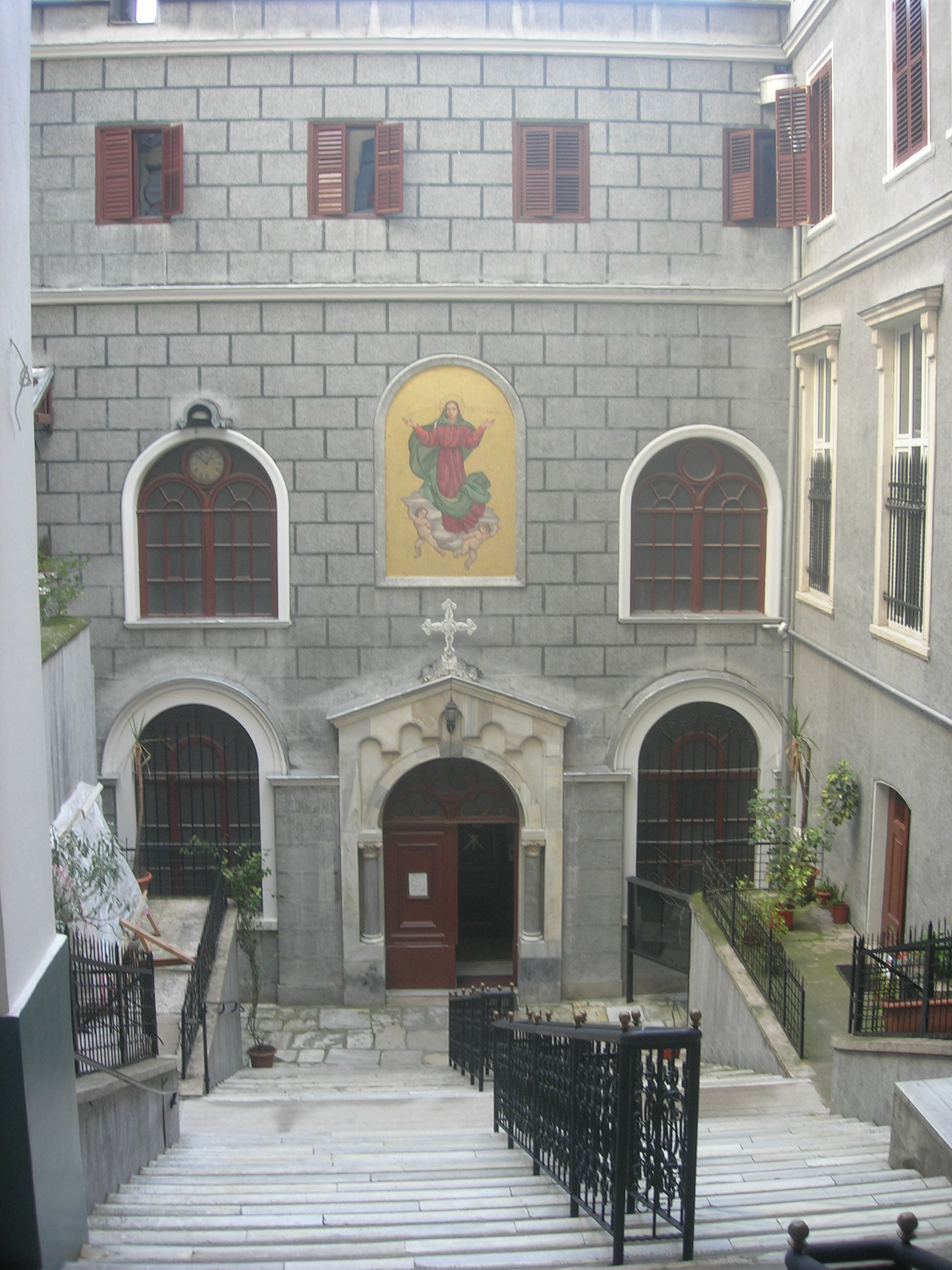 The Entrance of the Church of Santa Maria Draperis in Istanbul